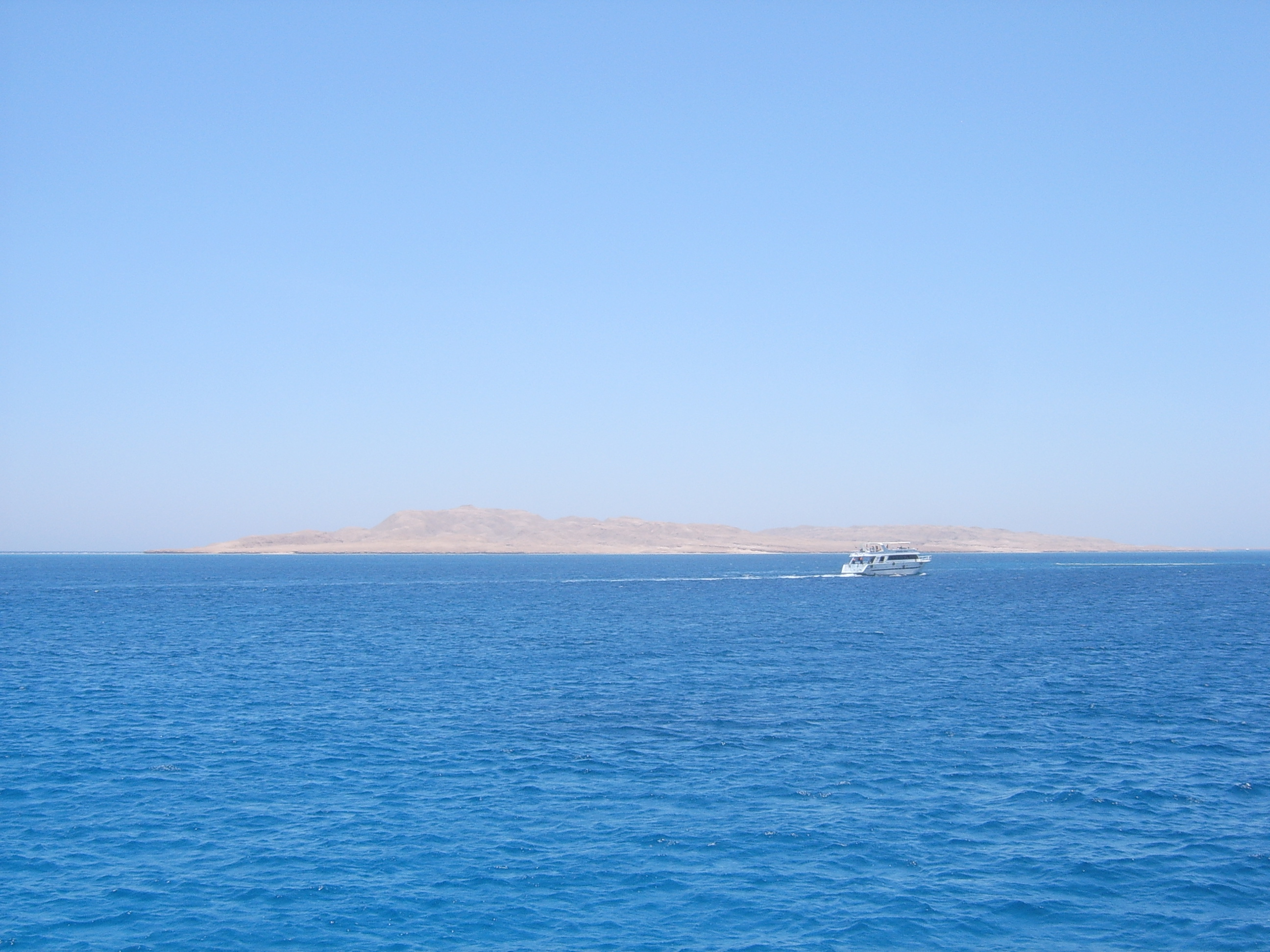 Small Giftun Island at Hurghada